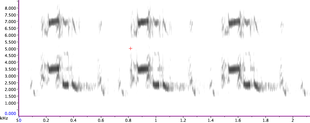 Sonogram of Grey Francolins call based on the audio file, Grey_Francolin_call_1.ogg, in Wikimedia Commons by user AshLin